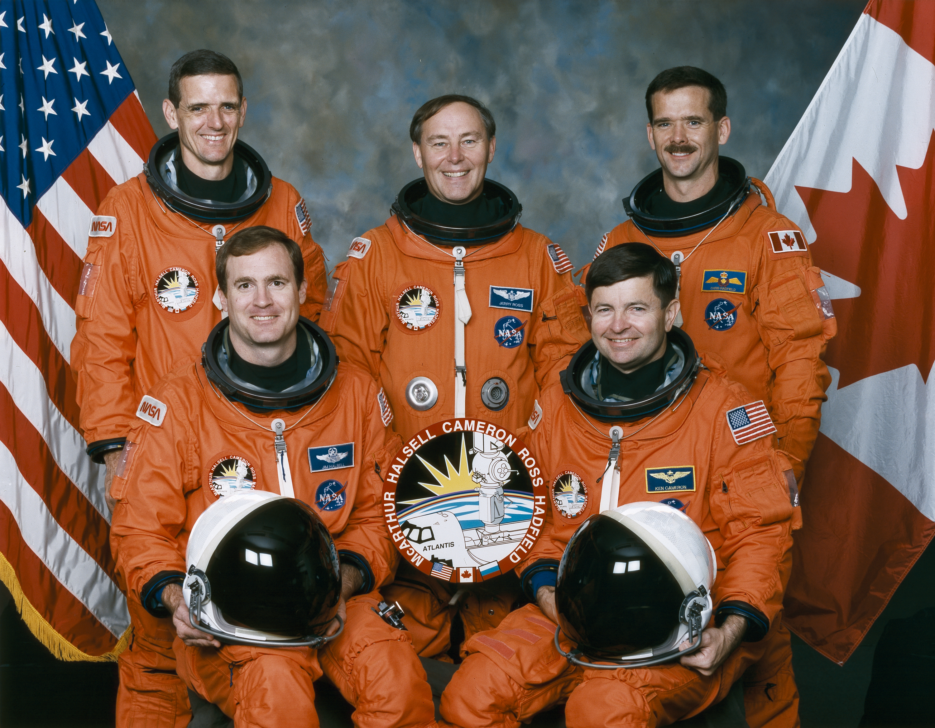 The crew assigned to the STS-74 mission included (seated left to right) James D. Halsell, pilot and Kenneth D. Cameron, commander. Standing, left to right, are mission specialists William S. McArthur, Jerry L. Ross, and Chris A. Hadfield. Launched aboard the Space Shuttle Atlantis on November 12, 1995 at 7:30:43.071 am (EST), the STS-74 mission performed the second docking of a U.S. Space Shuttle to the Russian Space Station Mir, continuing Phase I activities leading to the construction of the International Space Station (ISS).